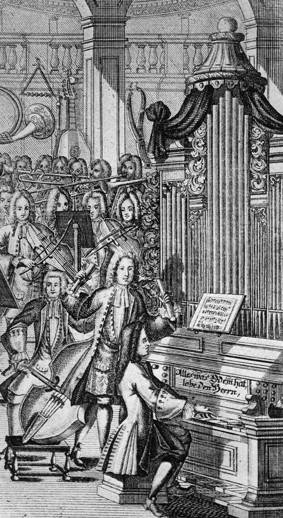 Frontispiece of the Musicalisches Lexicon of Johann Gottfried Walther. The illustration shows a composer conducting a cantata from a gallery in a church surrounded by musicians. Above the organ keyboard is the inscription from Psalm 150:2, "Alles, was Odem hat, lobe den Herrn!" (Everything that has breath praise the Lord.)